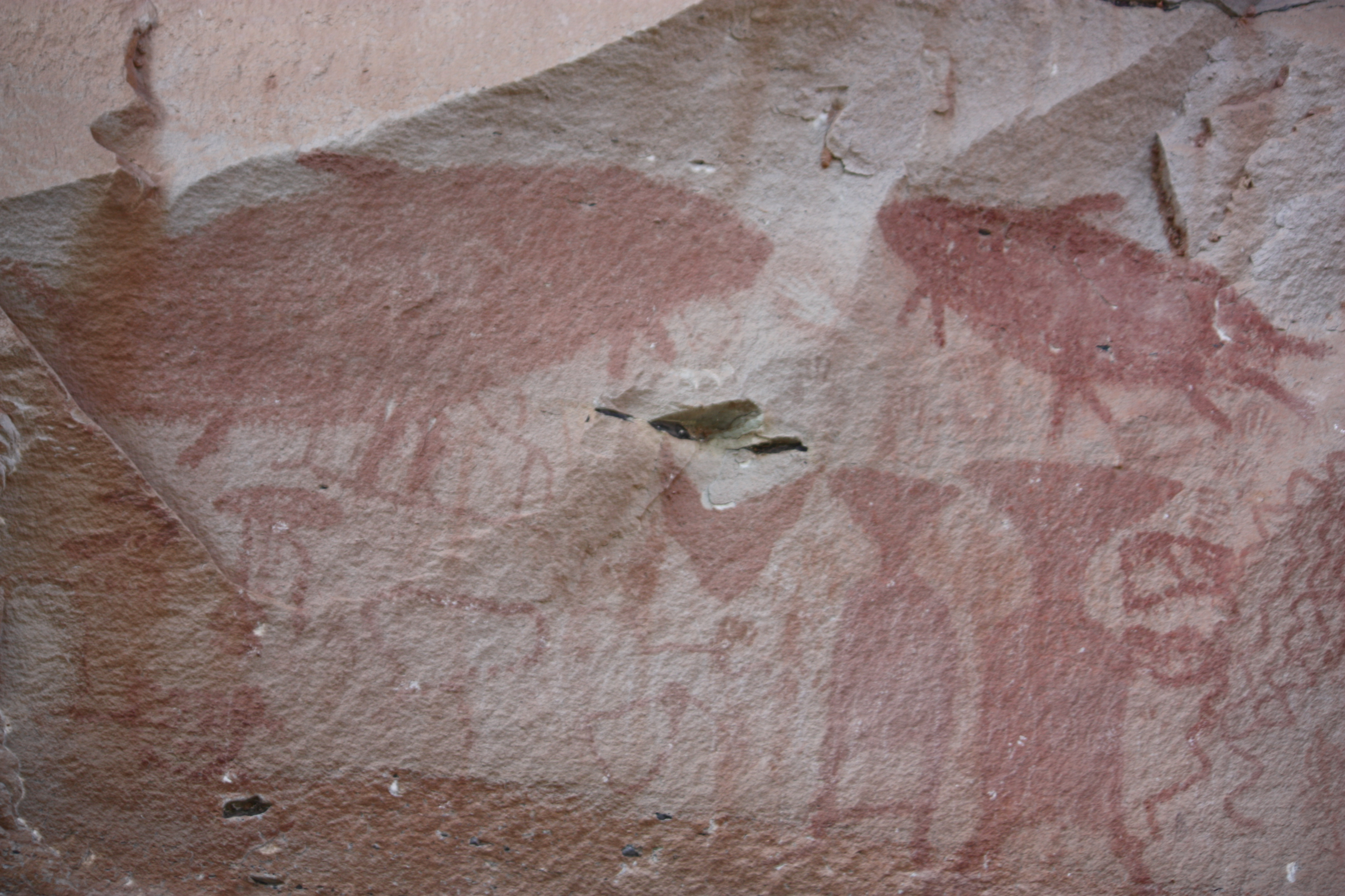 Pha Taem National Park - Rock art includes both humanoid and animal figures like the Giant Mekong Catfish Own work December 2010.